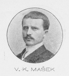 Portrait of Karel Vítězslav Mašek (1865-1927), Czech painter